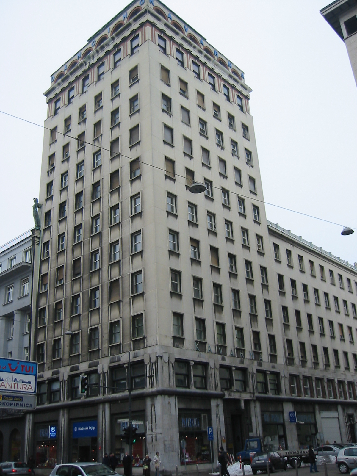 The "Sky Scraper" - classic 1930s architecture